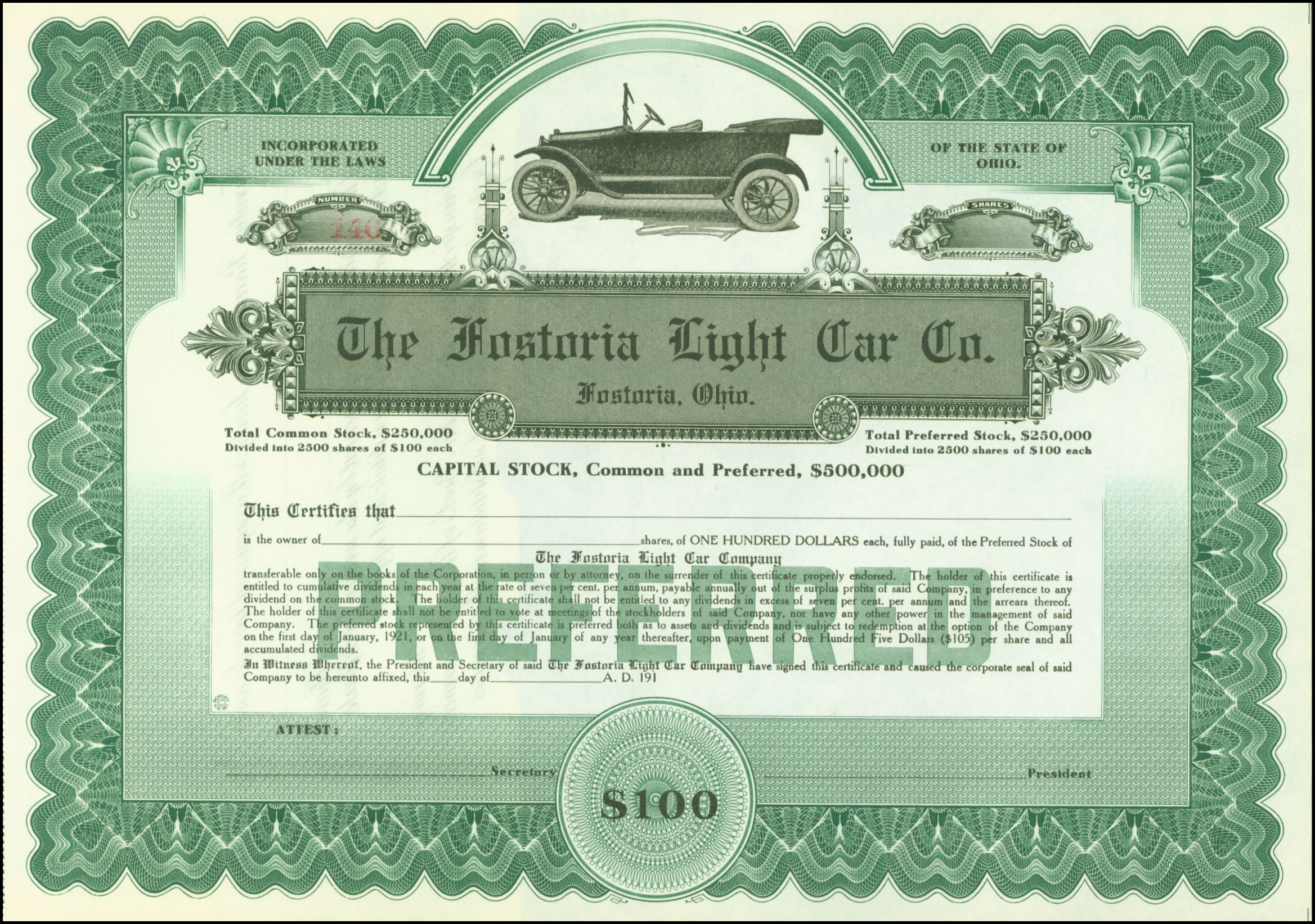 Unissued share of the Fostoria Light Car Company